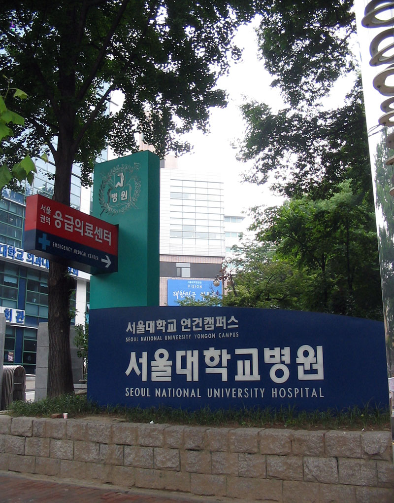 Entrance of Seoul National University, Yongon Campus